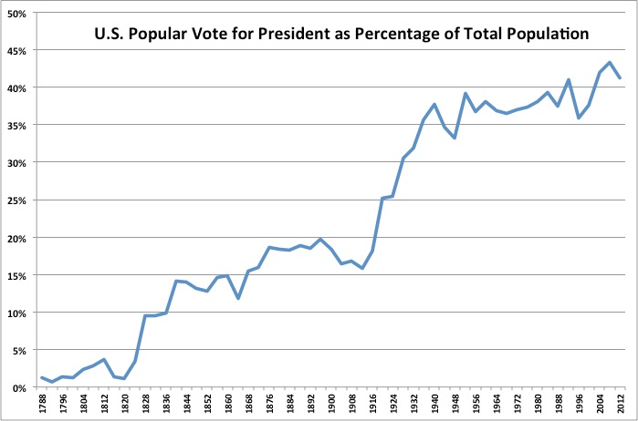 U.S. popular vote for president as a percentage share of the total U.S. population. Population totals from the U.S. Census Bureau. Vote totals from U.S. Election Atlas.